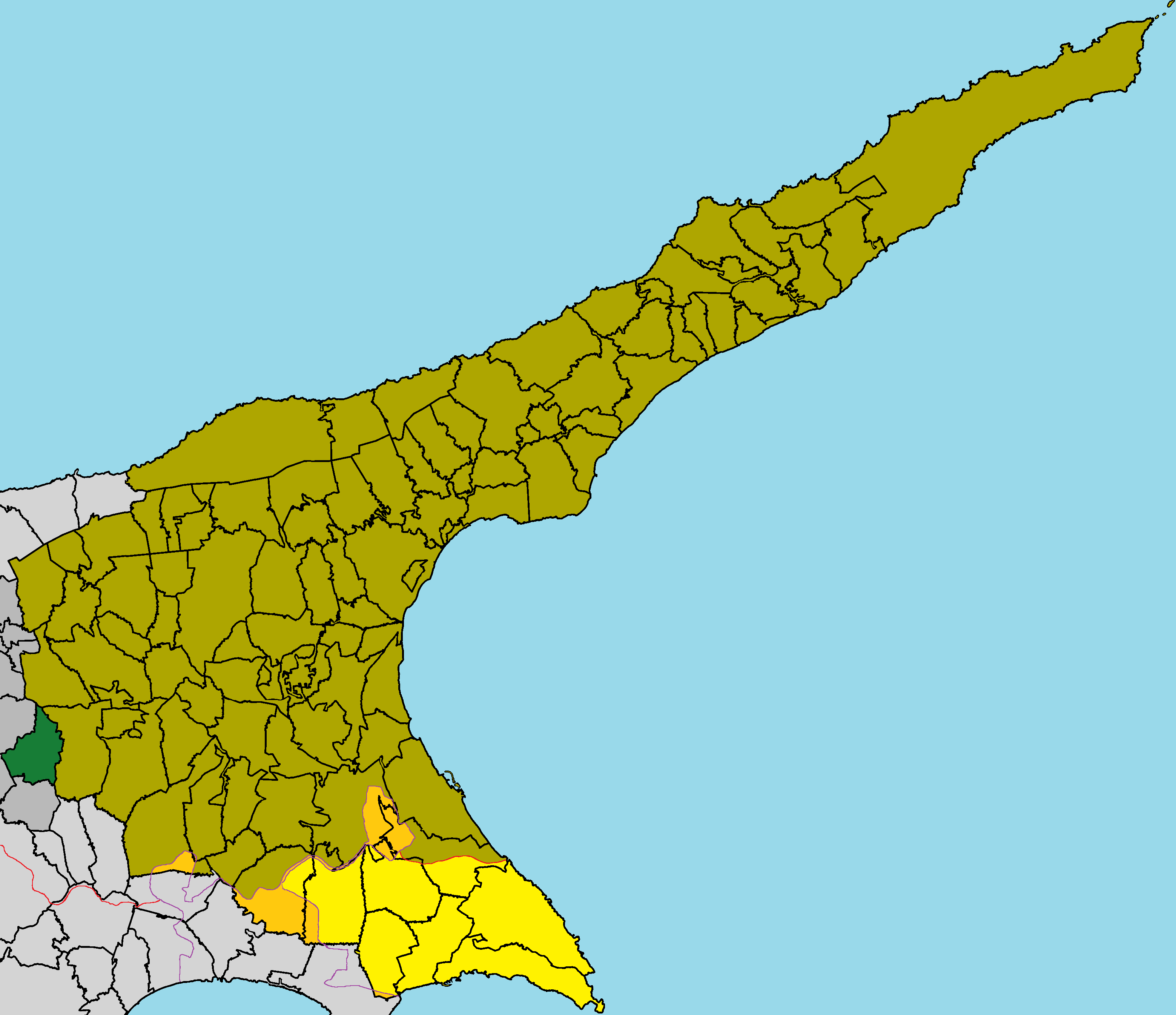 Afanteia-Ornithi in Famagusta District (de jure).